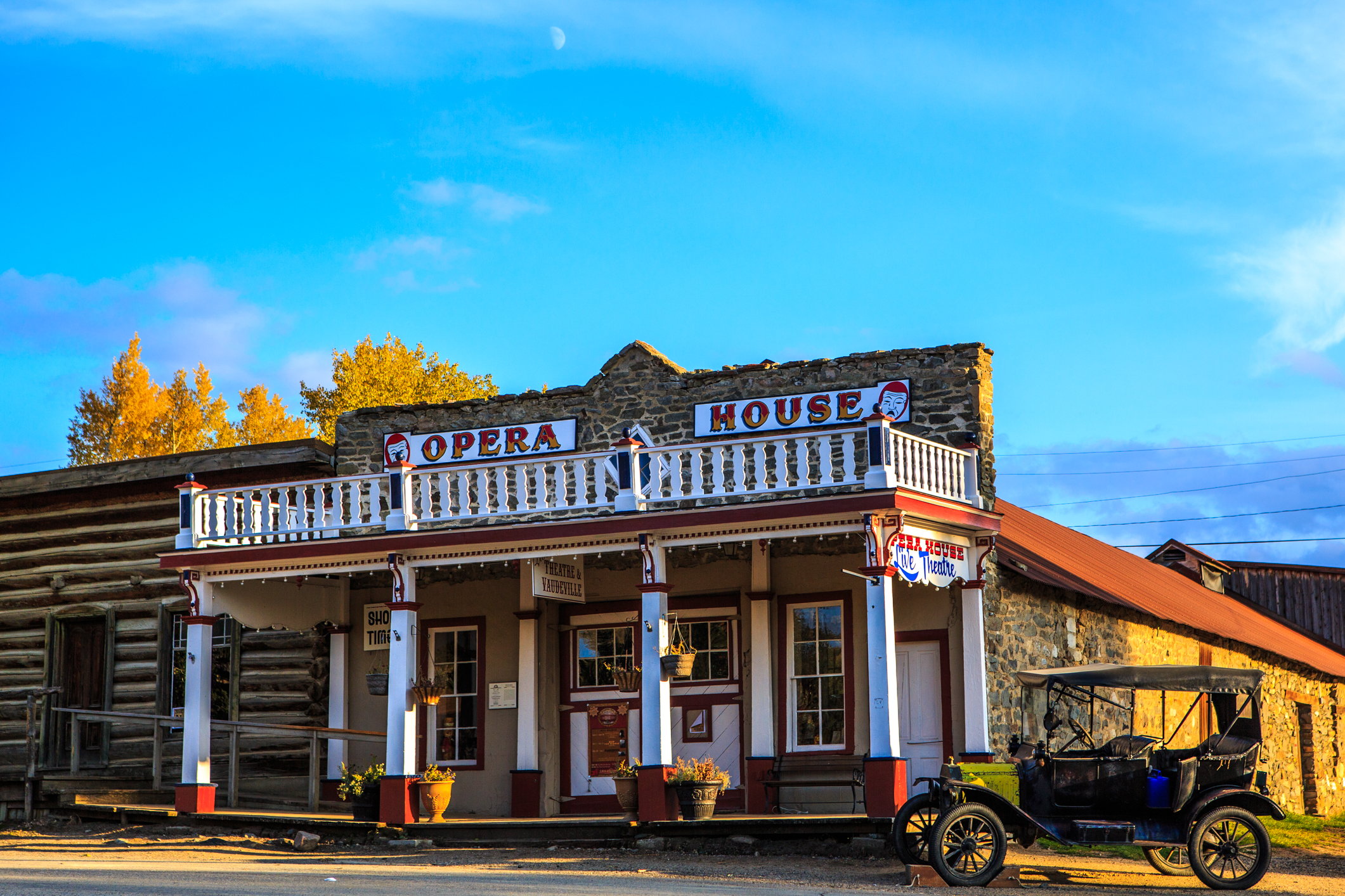 Virginia City, Montana